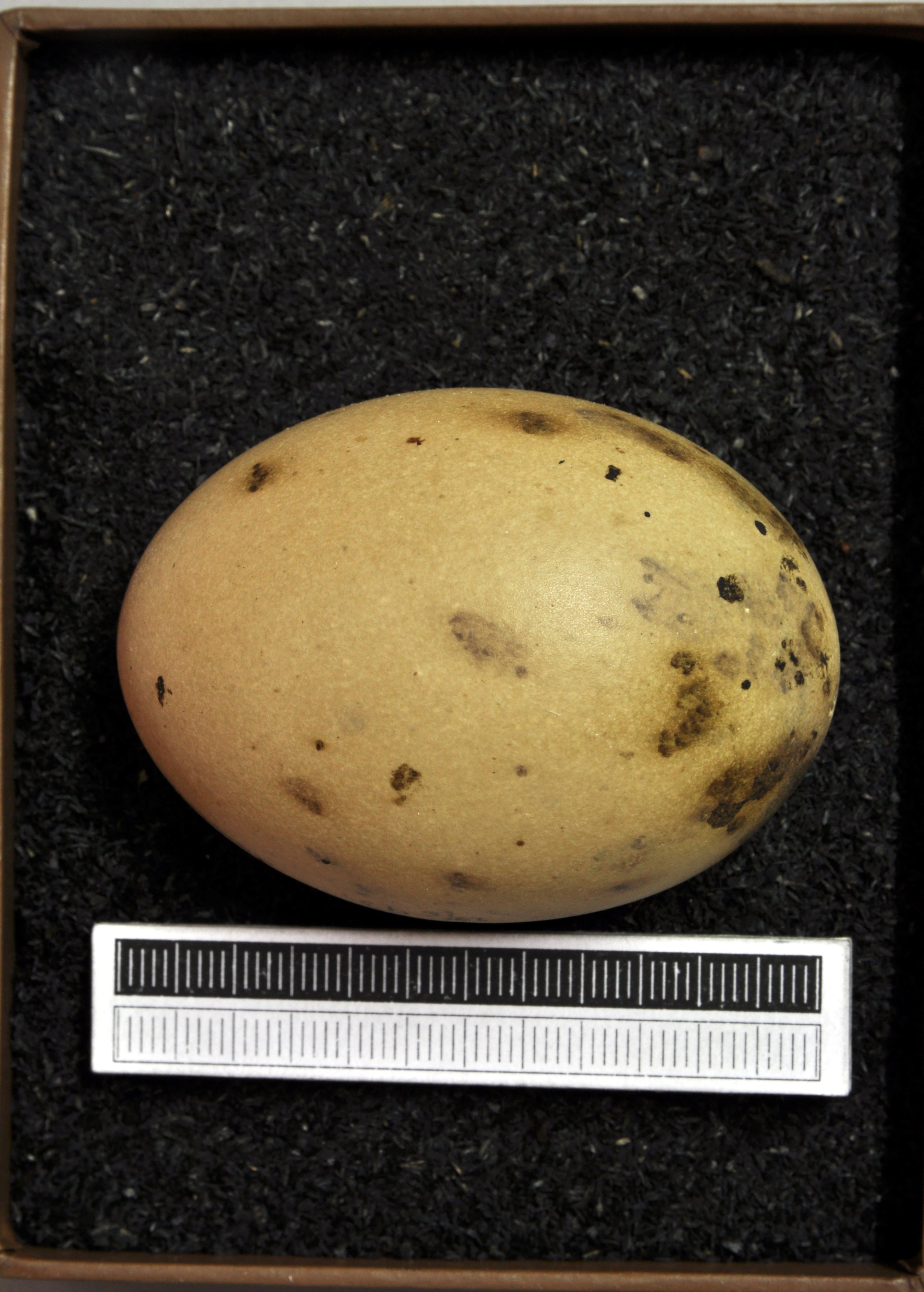 Houbara bustard Chlamydotis undulata , egg, Coll. Museum Wiesbaden